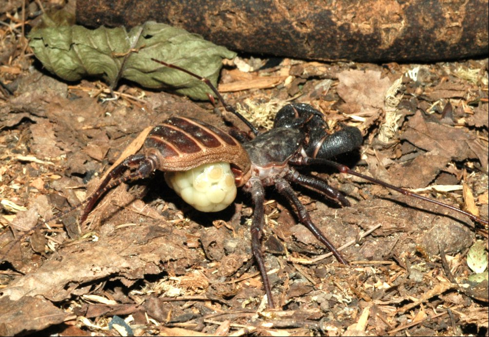 Mastigoproctus giganteus, Uropygi (Vinegarroon or whip scorpion) female with egg sac